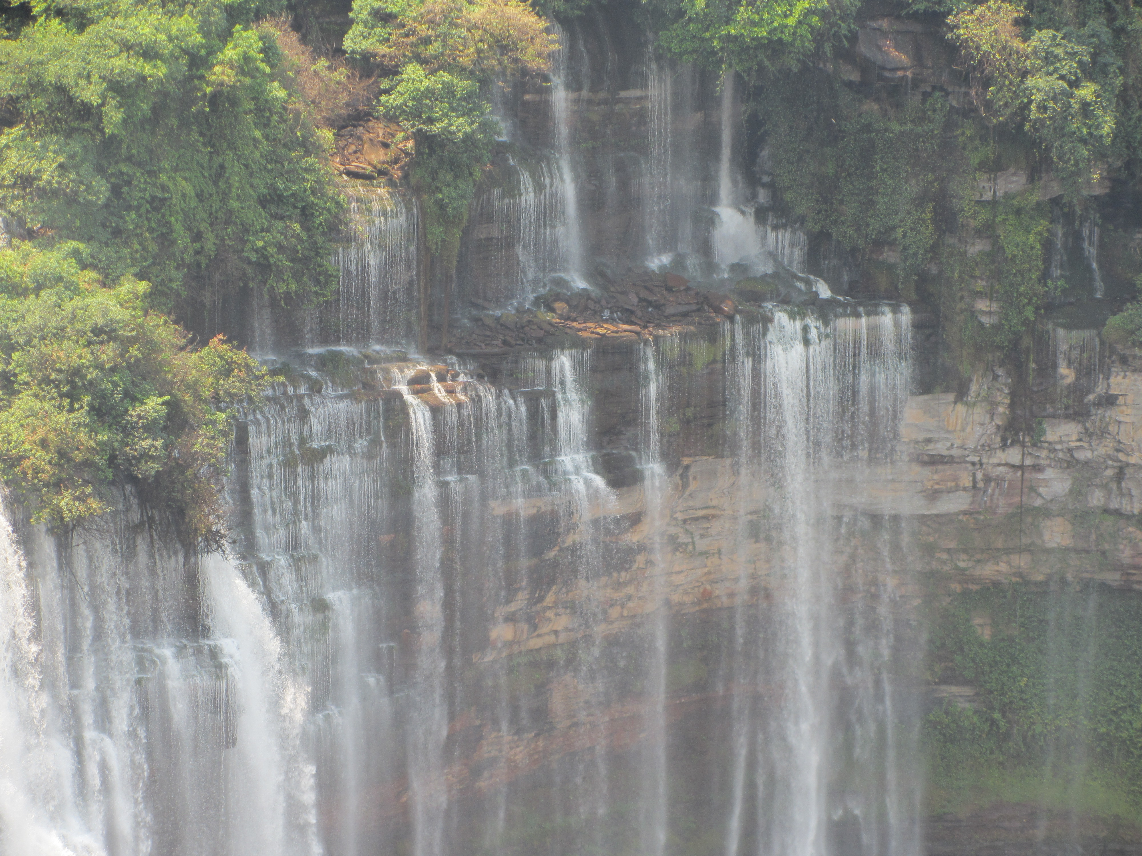 A closer look at the terraces formed by the Kalandula water fall